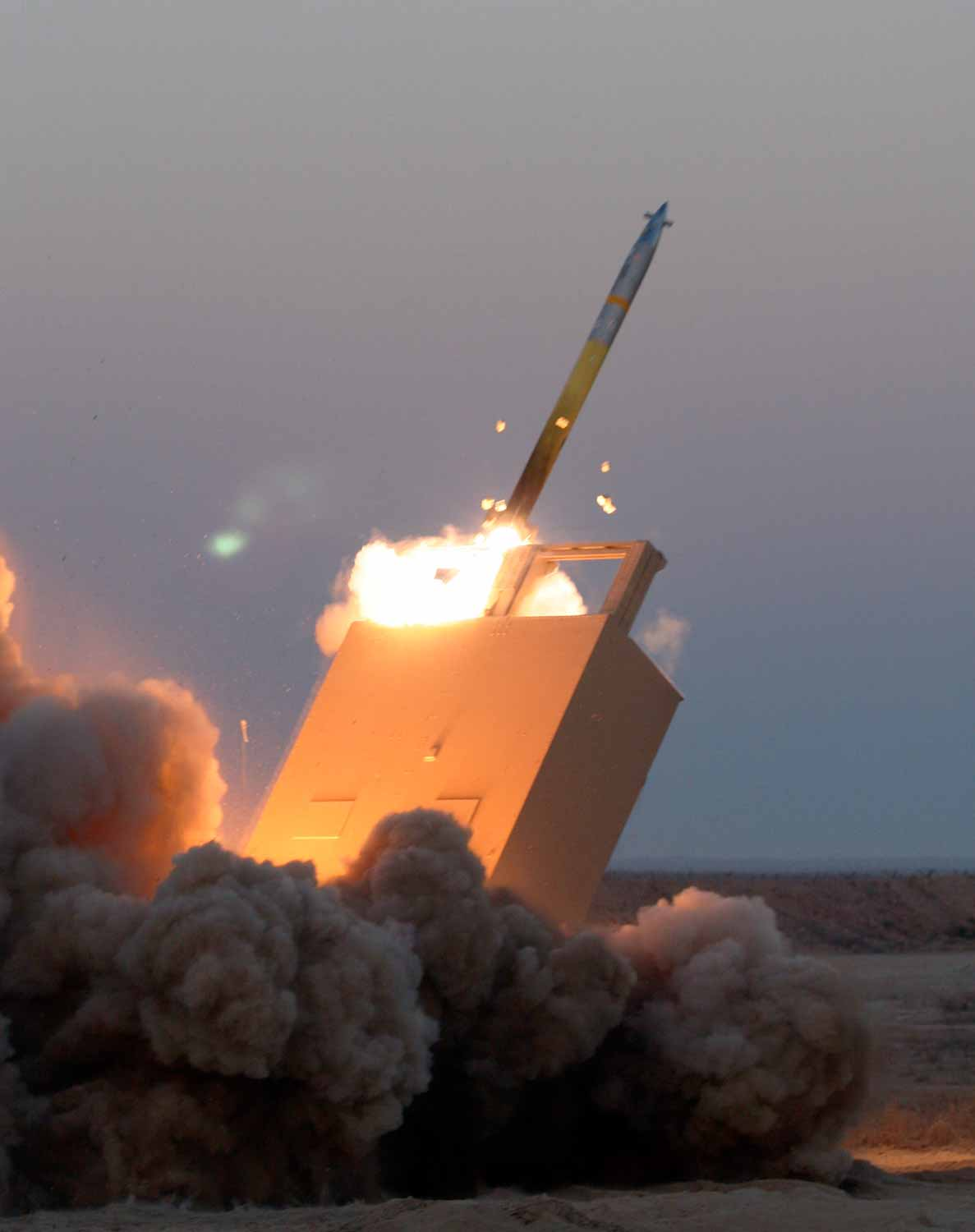 A Guided Multiple Launch Rocket System (MLRS) fires a 227 mm rocket at a building that insurgents were using to store explosives and a nearby weapons cache in the open desert near the northern Iraqi city of Bayji, December 27.